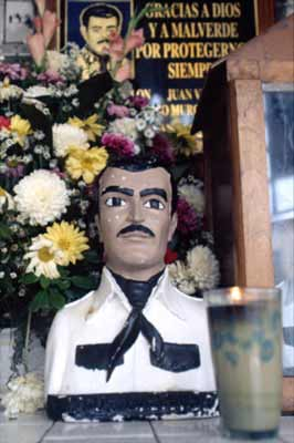 Figure of the Mexican folklore hero Jesús Malverde - Taken by the author